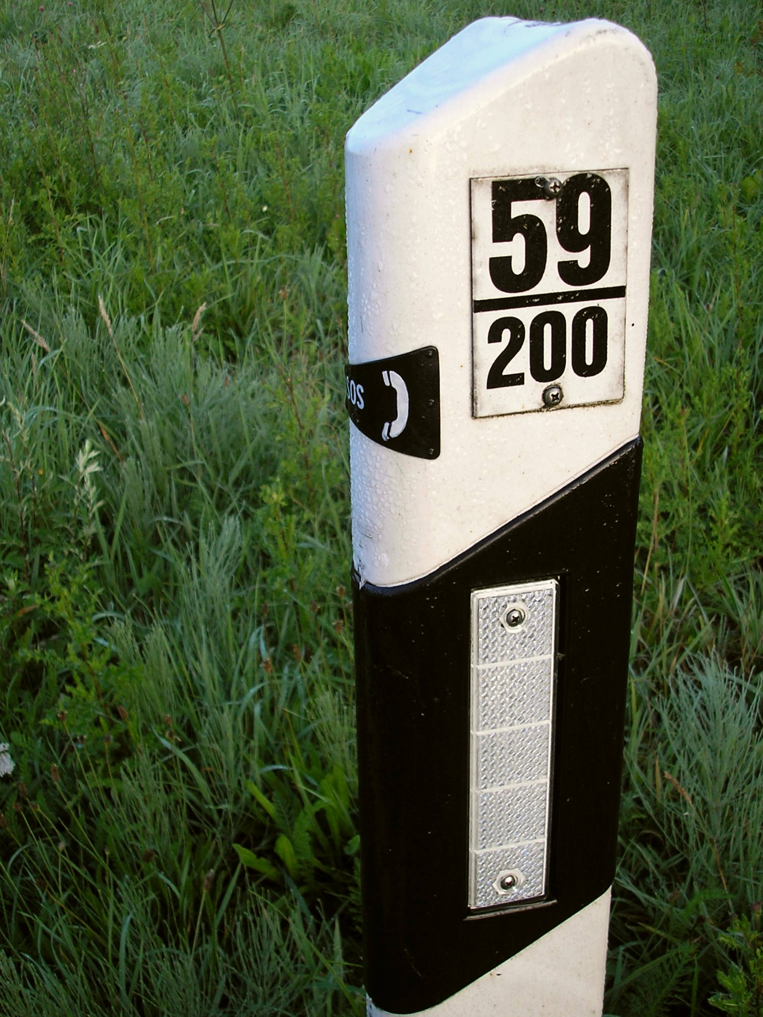 Combined roadside reflector and hectometer sign on German Autobahn.